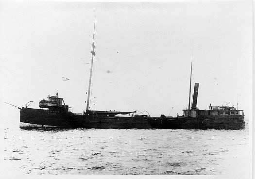 Steamer R. J. Hackett, built 1869, sunk 1905